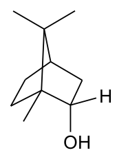 (+)-Borneol